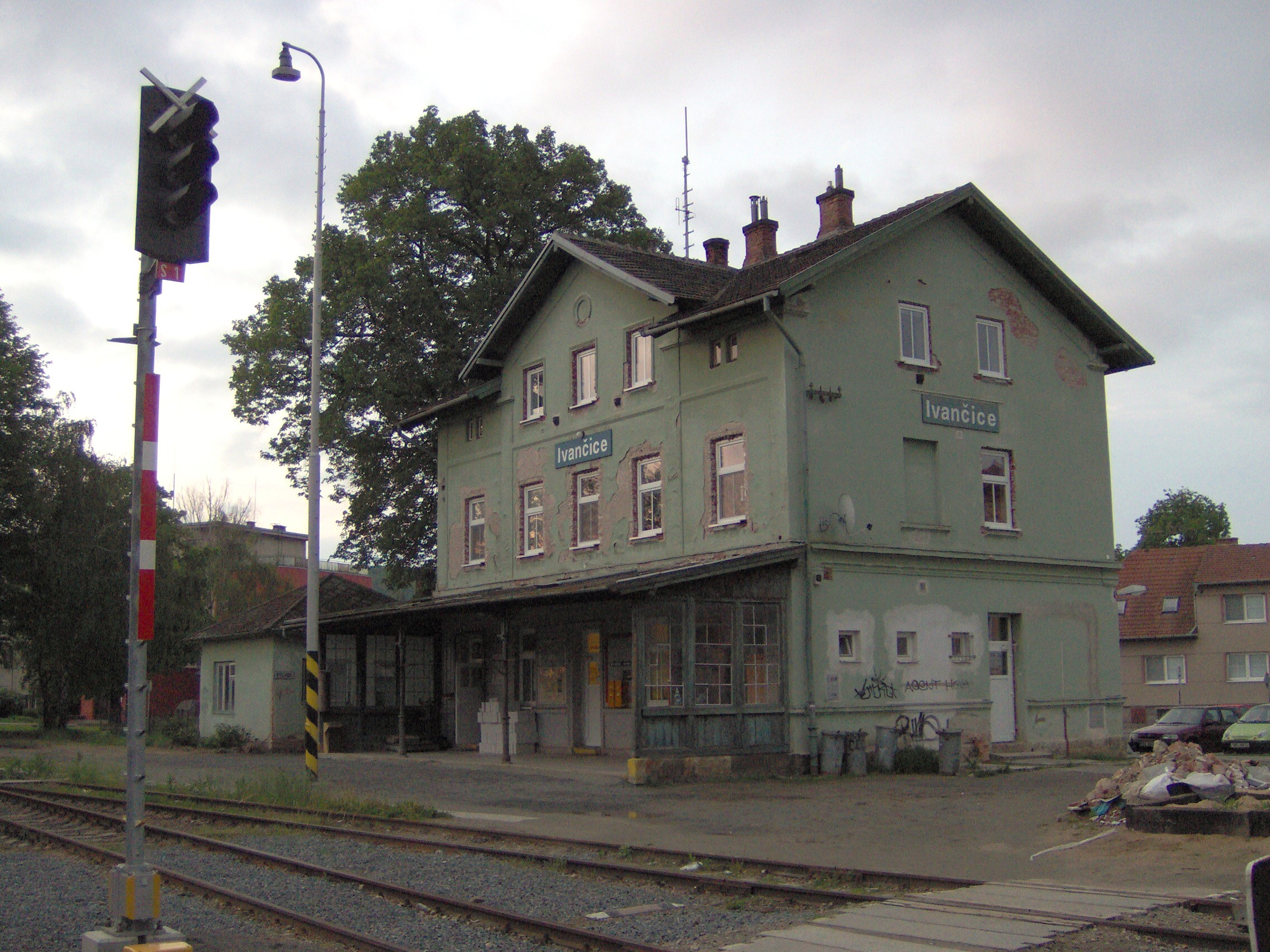 Ivančice train station, Brno-venkov District, Czech Republic